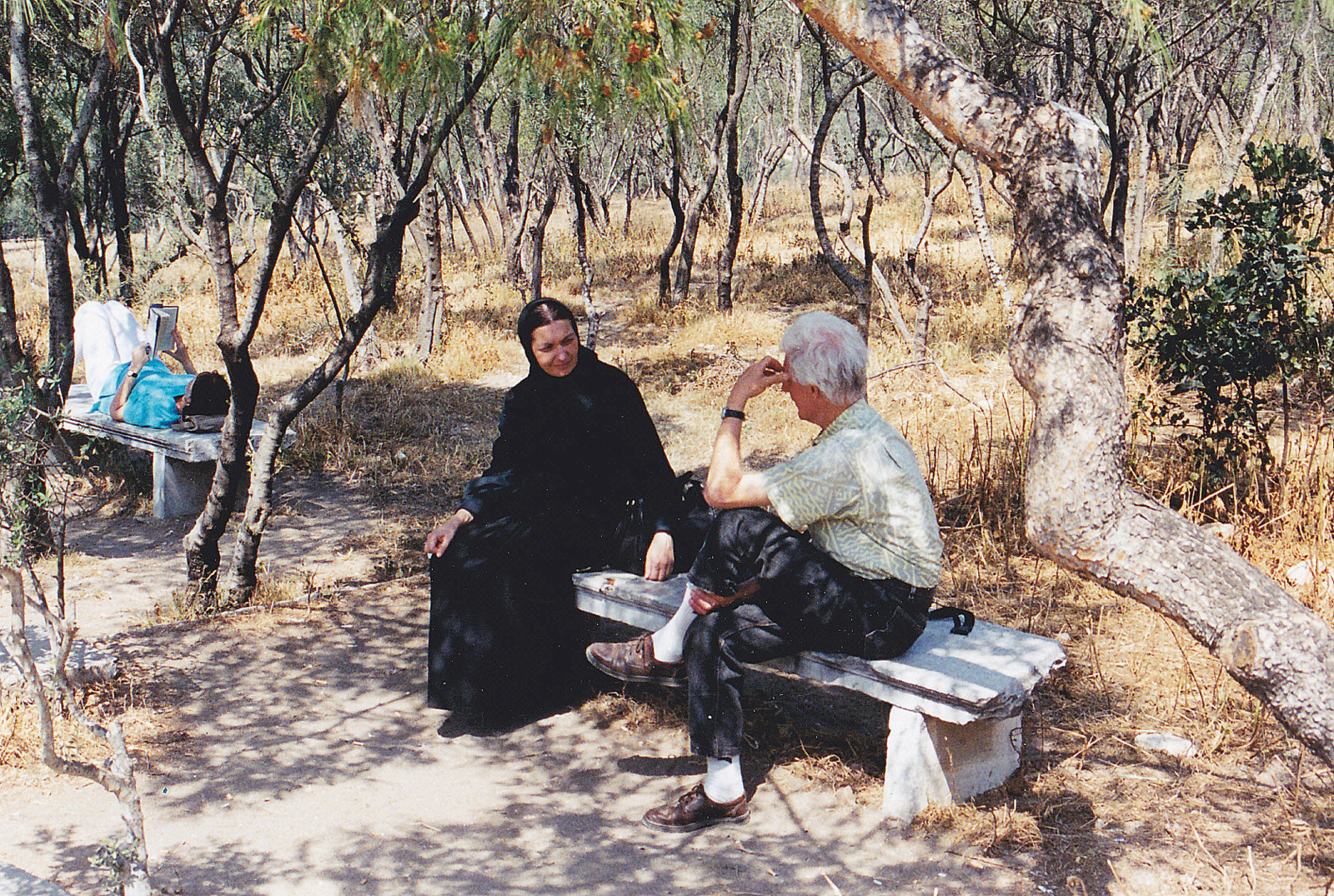 Talking old man and woman Greece